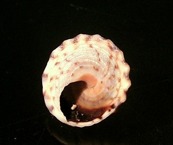 Bembicium melanostoma (Gmelin, 1791), a periwinkle from the family Littorinidae; Australia.